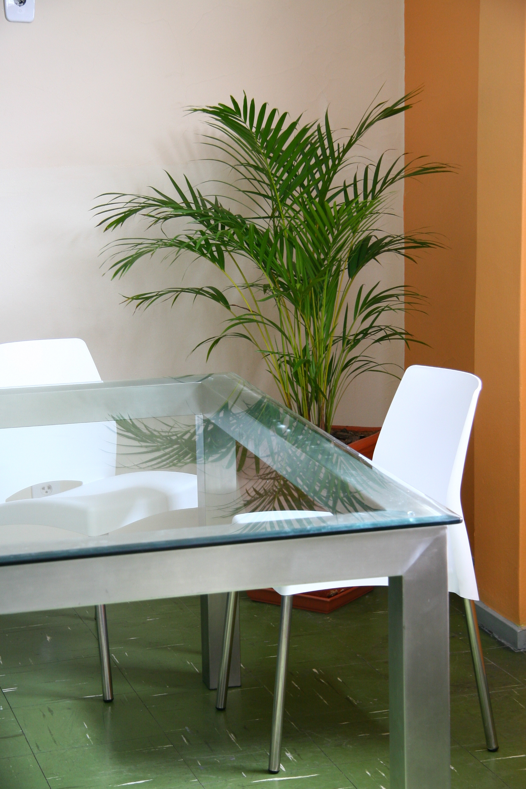 Palmetal stainless steel furniture with ecodesign. Chair and table.